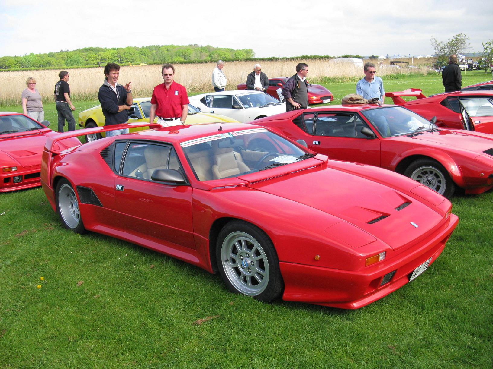 De Tomaso Pantera SI, one of 41 cars built in 1990's after a major restyling carried over by italian designer Marcello Gandini